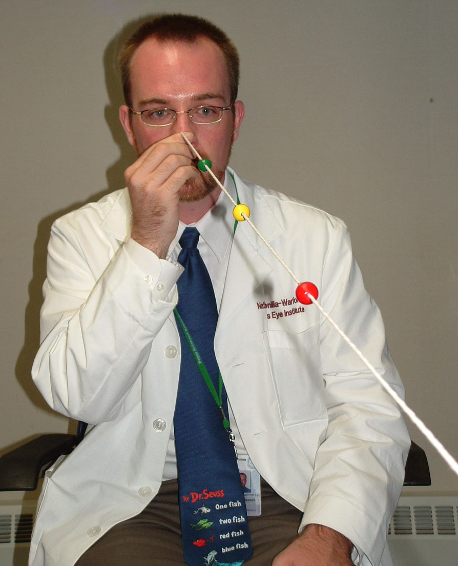 An example of the Brock String in use for treatment of convergence insufficiency.